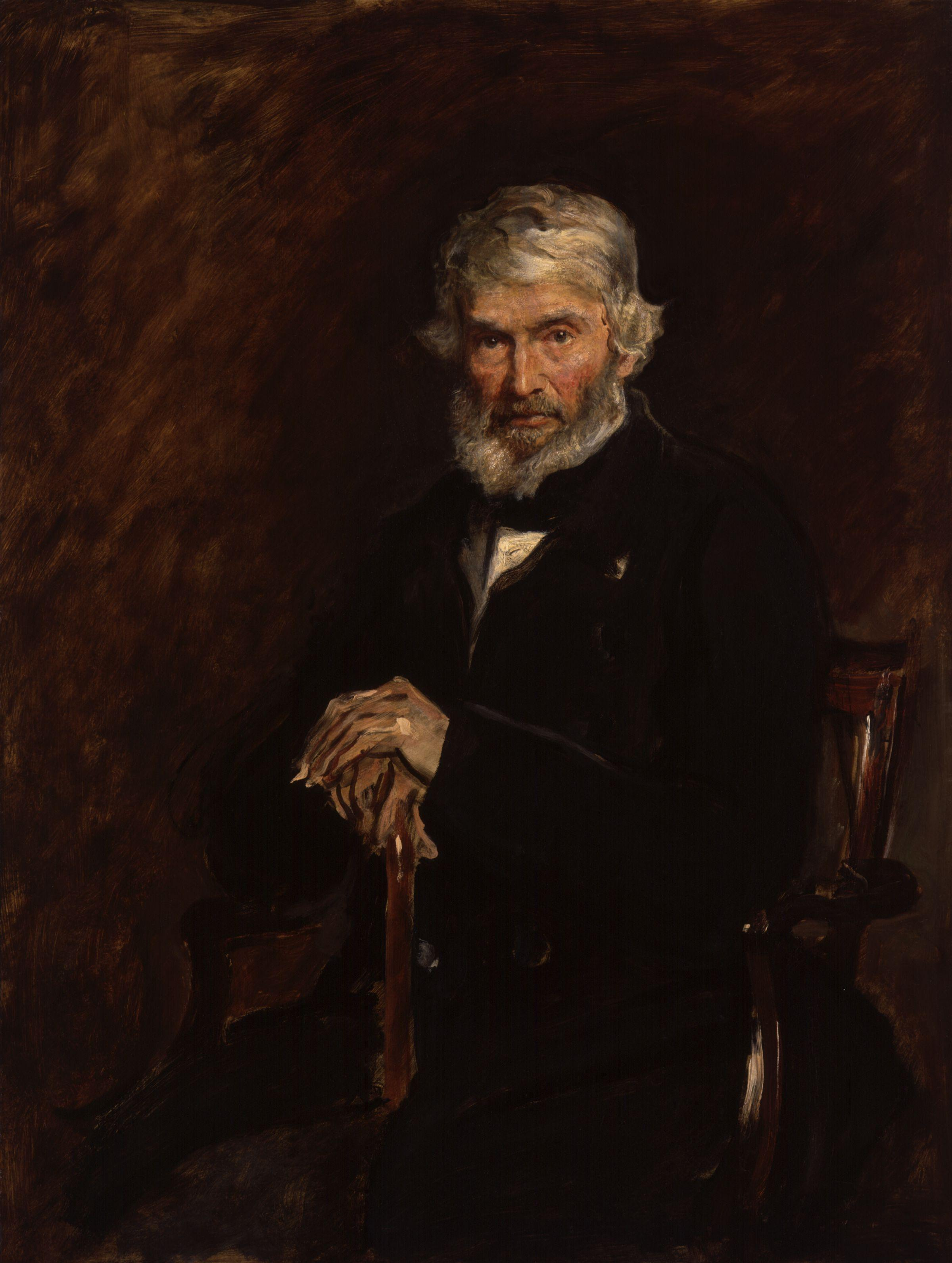 Thomas Carlyle, by Sir John Everett Millais, 1st Bt (died 1896). All images in this batch have been confirmed as author died before 1939 according to the official death date listed by the NPG.